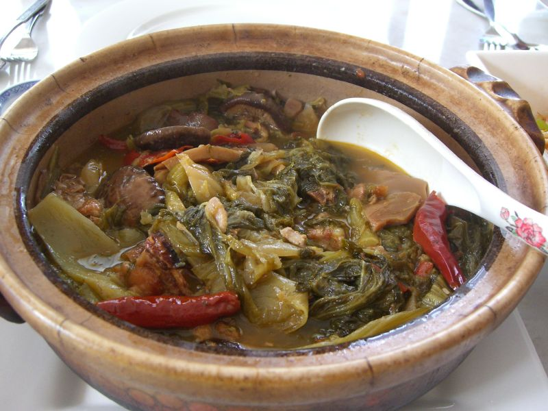 元宵节 Yuan Xiao Dinner at Uncle Henry and Aunt Shirley's Hot and Spicy Leftovers 菜尾 are quite a common occurance during festivals. It's a dish where you all the leftovers are used with a dried slices of tamarind and heat from dried chillies. I think it is a Hokkie style dish. - 元宵节 Yuan Xiao Dinner at Uncle Henry and Aunt Shirley's - Aunty Shirley's Vegetarian Fried Flat Rice Noodles - Aunty Shirley's Tom Yum Fried Rice Vermicelli - Aunty Shirley's Fried Flat Rice Noodles - Hot and Spicy Leftovers 菜尾